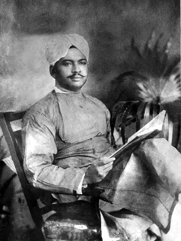 Gujarati poet "Sursinhji Gohil "Kalapi" who was also royal of princely state, Lathi during British India. He died in 1900 so image must be in public domain.